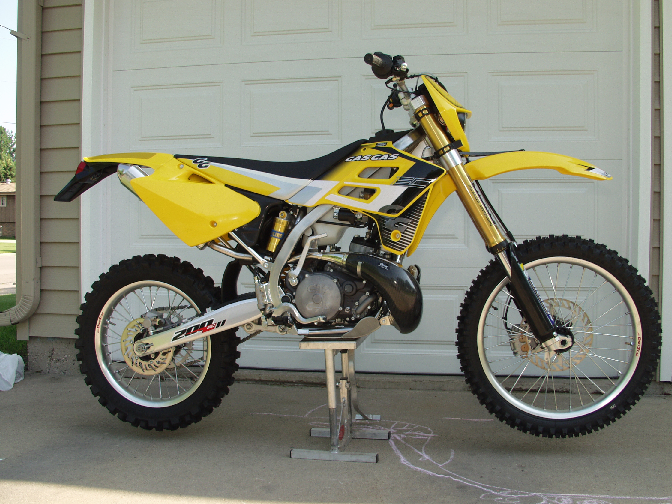 2003 Gas Gas EC200